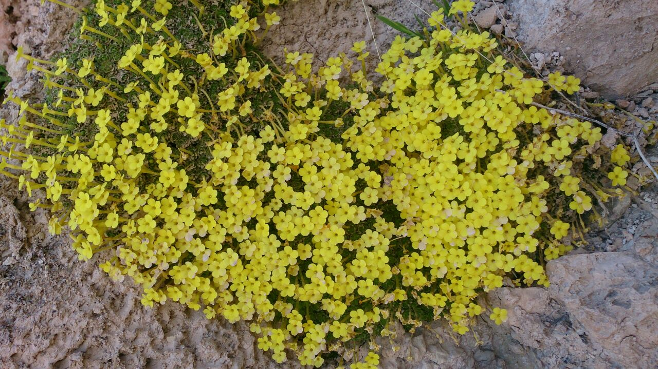 Dionysia robusta photographed in Iran by Dr. Simin Younesi.